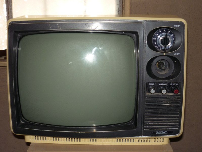 Old Black/White Television